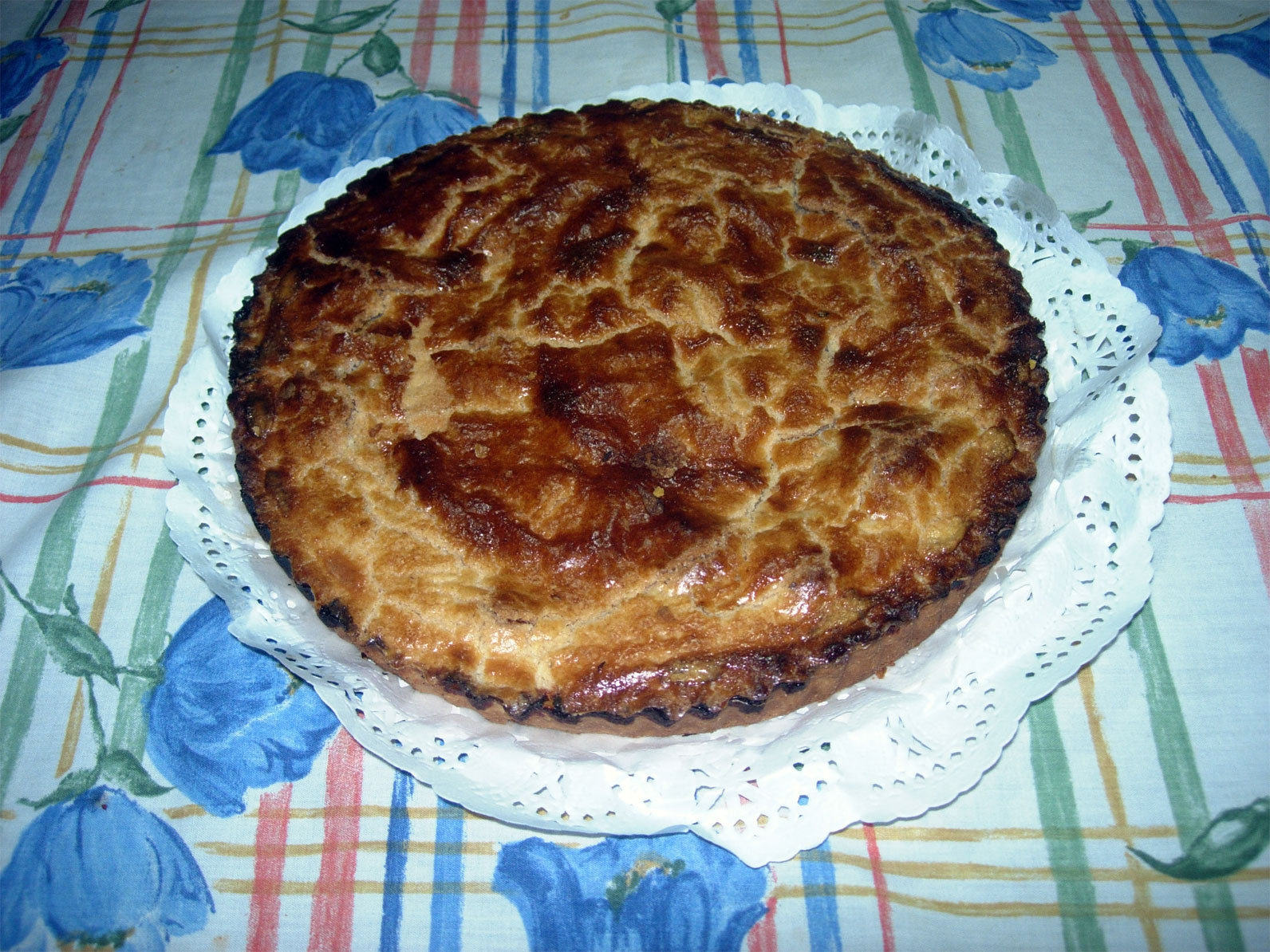 Cierva's cake, typical product of Mar Menor (Region of Murcia).